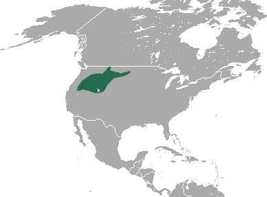 Preble's Shrew (Sorex preblei) range